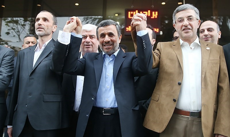 Registration from candidates of Iranian 2017 presidential election